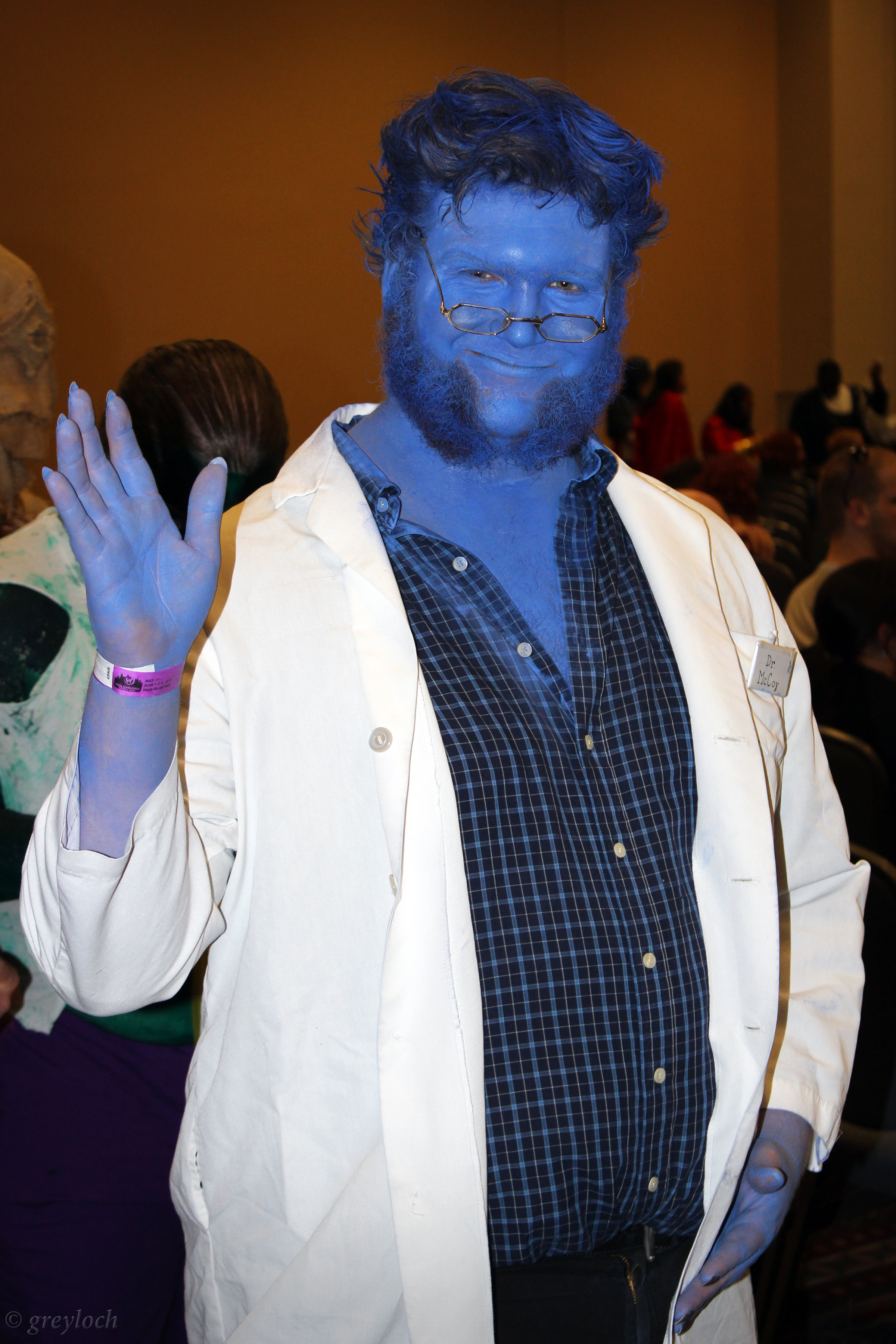 Cosplayer of Dr. Henry (Hank) McCoy, a.k.a. The Beast from Marvel Comics' "X-Men" at 2012 Philadelphia Comic-Con